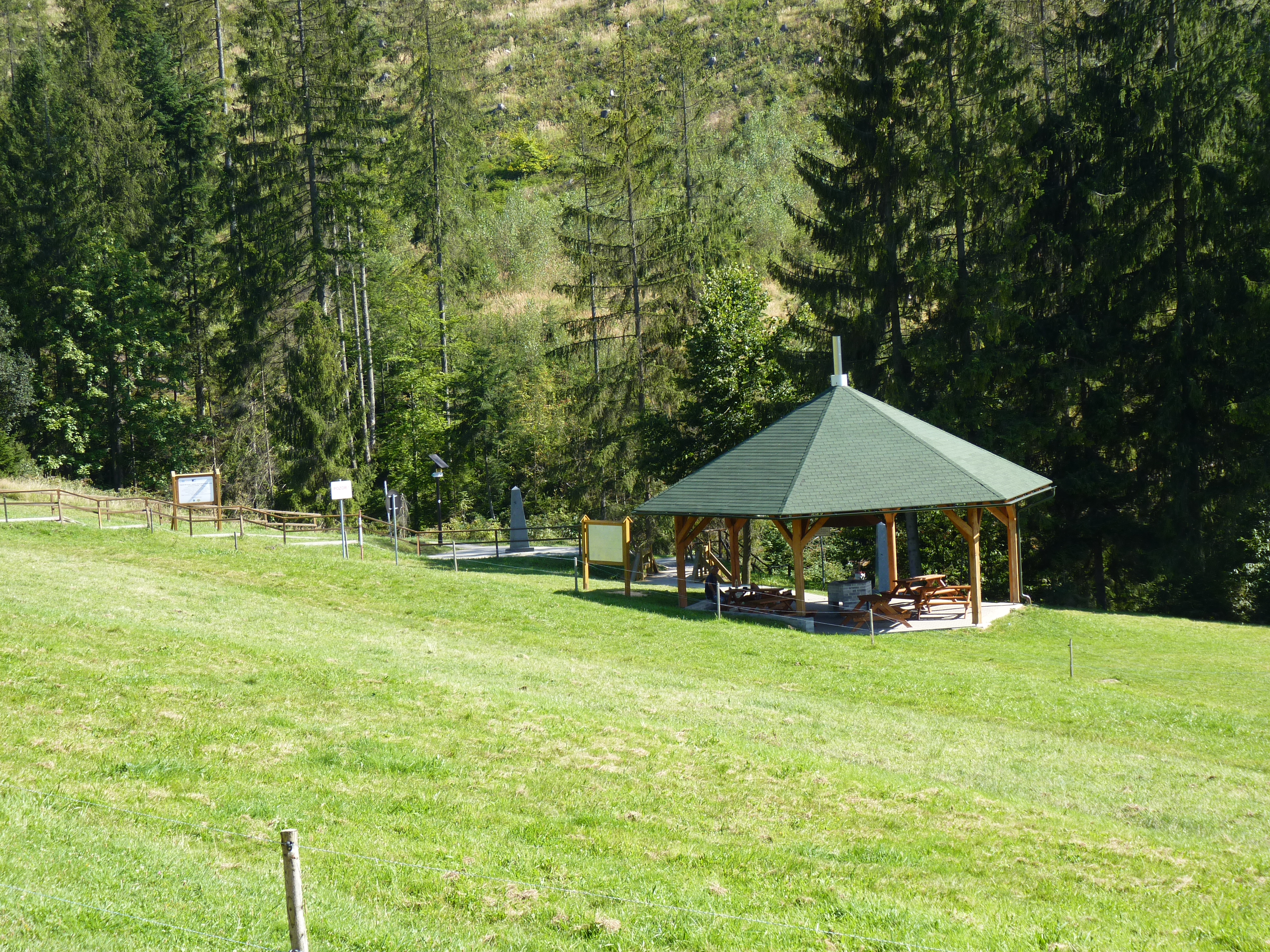 Tripoint of the Czech Republic, Poland and Slovakia. Hrčava in Frýdek-Místek District, Moravian-Silesian Region, Czech Republic